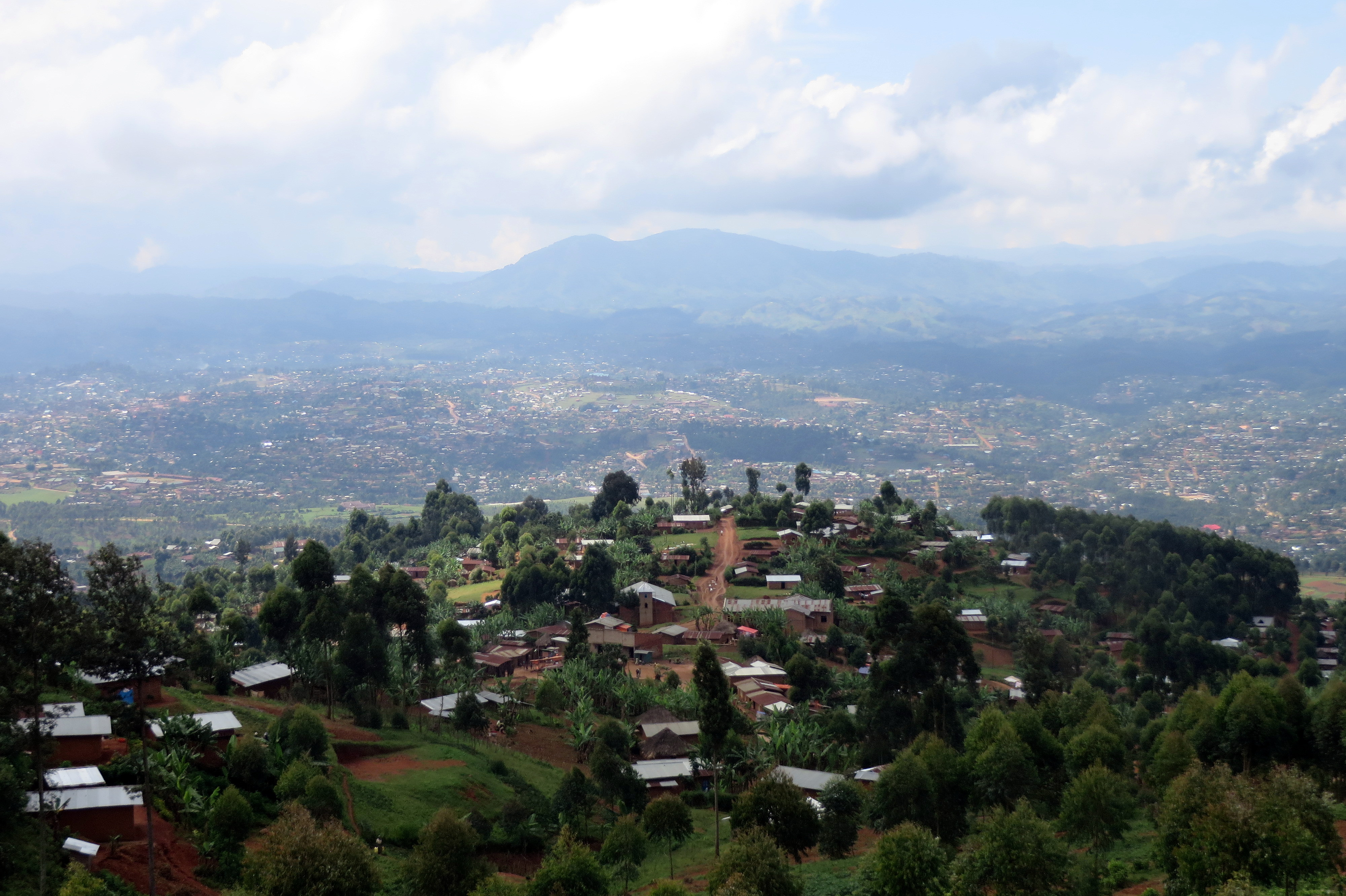 Taken in Butembo, 2014